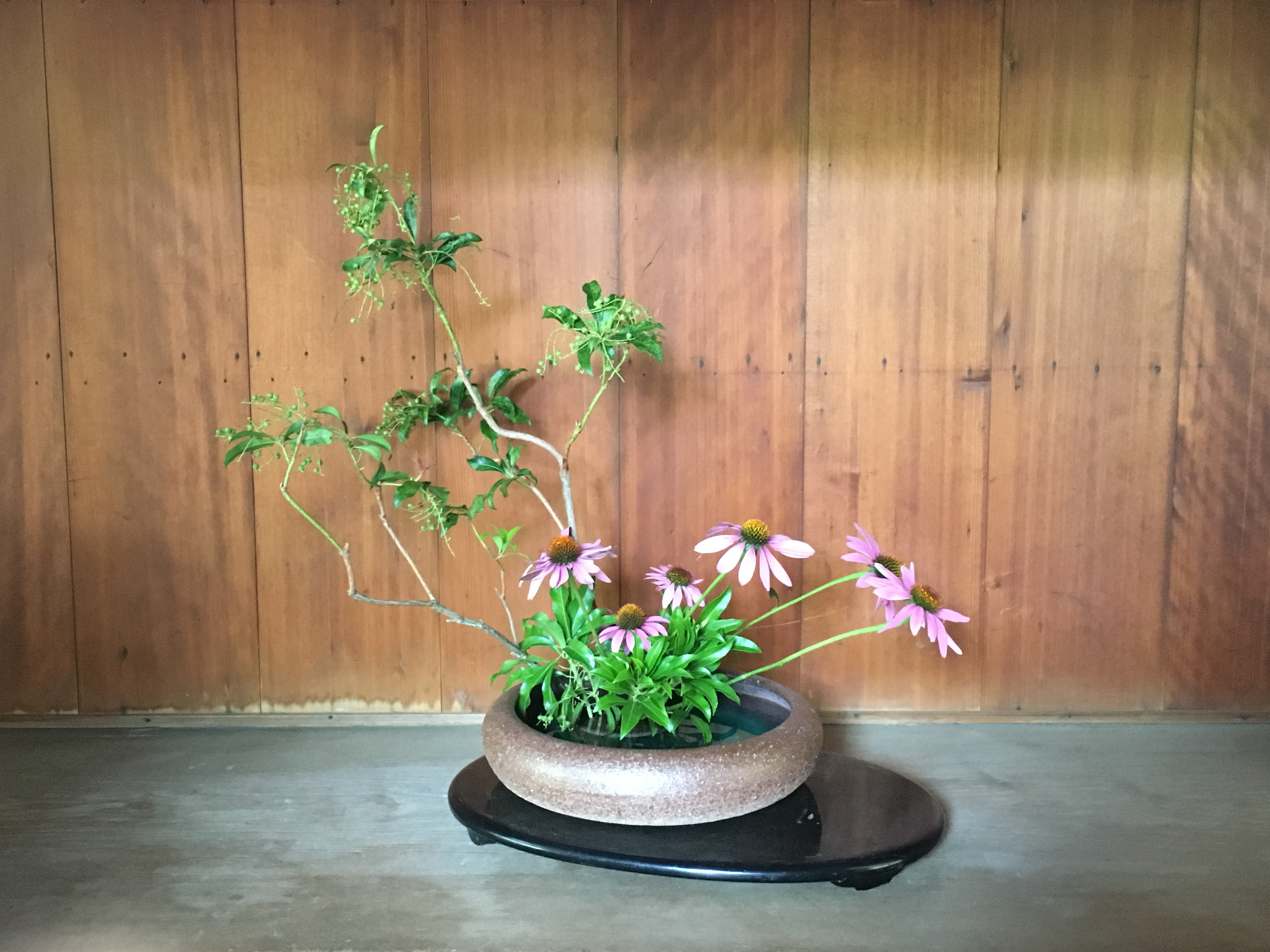 Classical style Sōgetsu-ryū arrangement at the Shōfusō in Philadelphia.